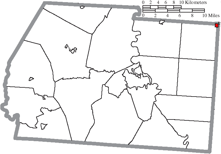 Map of the municipal and township boundaries of Ross County, Ohio, United States, as of the 2000 census, with the location of the village of Adelphi highlighted. Township borders are shown only in unincorporated areas in order to differentiate incorporated and unincorporated areas more clearly.